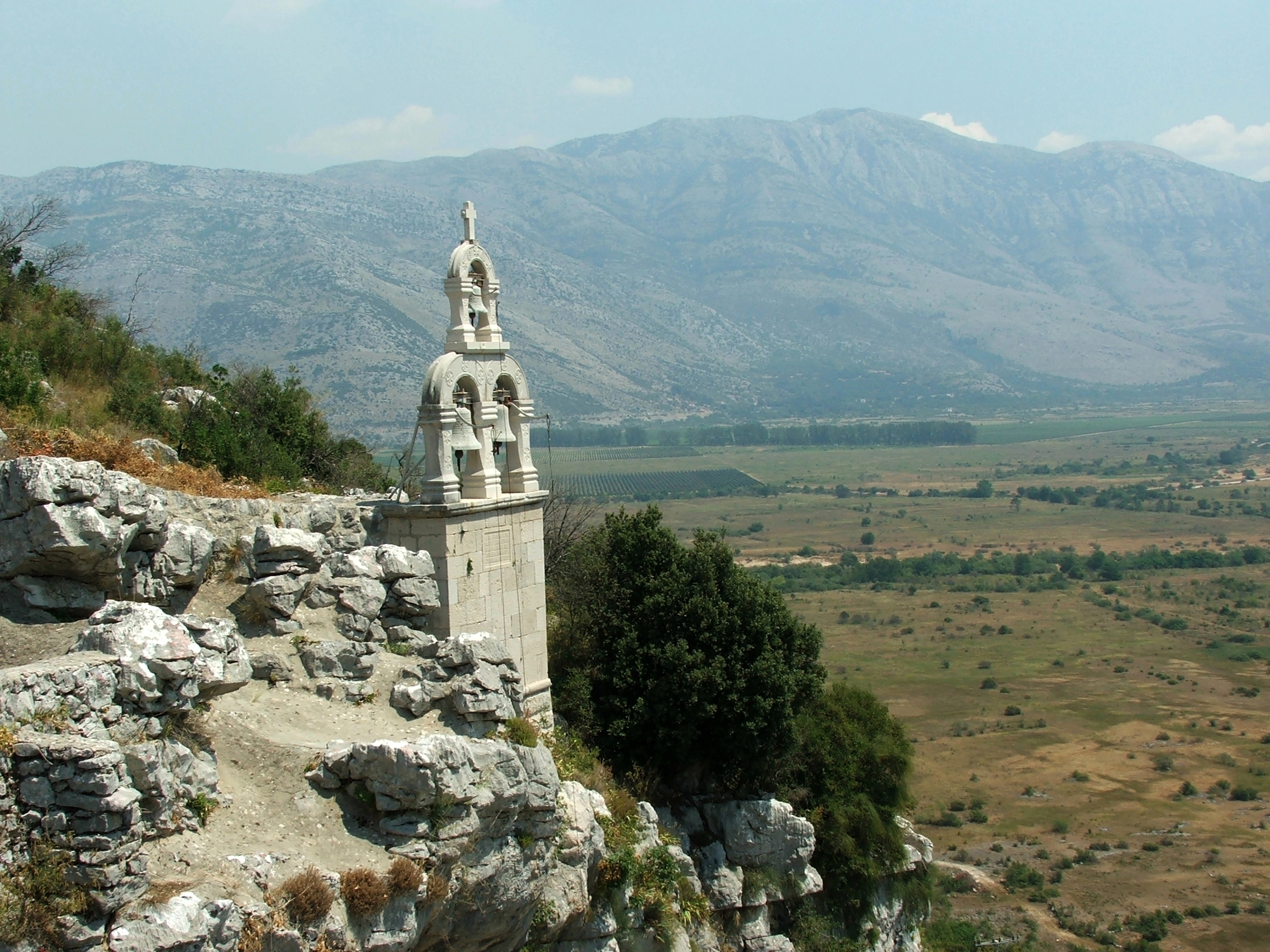 Zavala Monastery The Zavala Monastery is located in the immediate vicinity of Popovo Polje. The church relies on the natural cave, and its architecture is conditioned by this position. The church is dedicated to The Entry of the Most Holy Theotokos into the Temple. The interior of the church is painted with frescoes, which are the work of the famous Hilandar monk Georgije Mitrofanović, a great Serbian painter of the 17th century. In this monastery, novice was St. Basil of Ostrog. Српски (ћирилица): Манастир Завала Манастир Завала налази се у непосредној близини Поповог Поља. Црква се наслања на природну пећину, и њен изгед и архитектура условљени су овим положајем. Црква је посвећена ваведењу Пресвете Богородице. Унутрашњост цркве је живописана фрескама, које су рад познатог хиландарског монаха Георгија Митрофановића, великог српског зографа 17. века. У овом манастиру искушеник је био Свети Василије Острошки. NKD610 - Манастирска црква Ваведења, Завала - Списак културних добара Српске